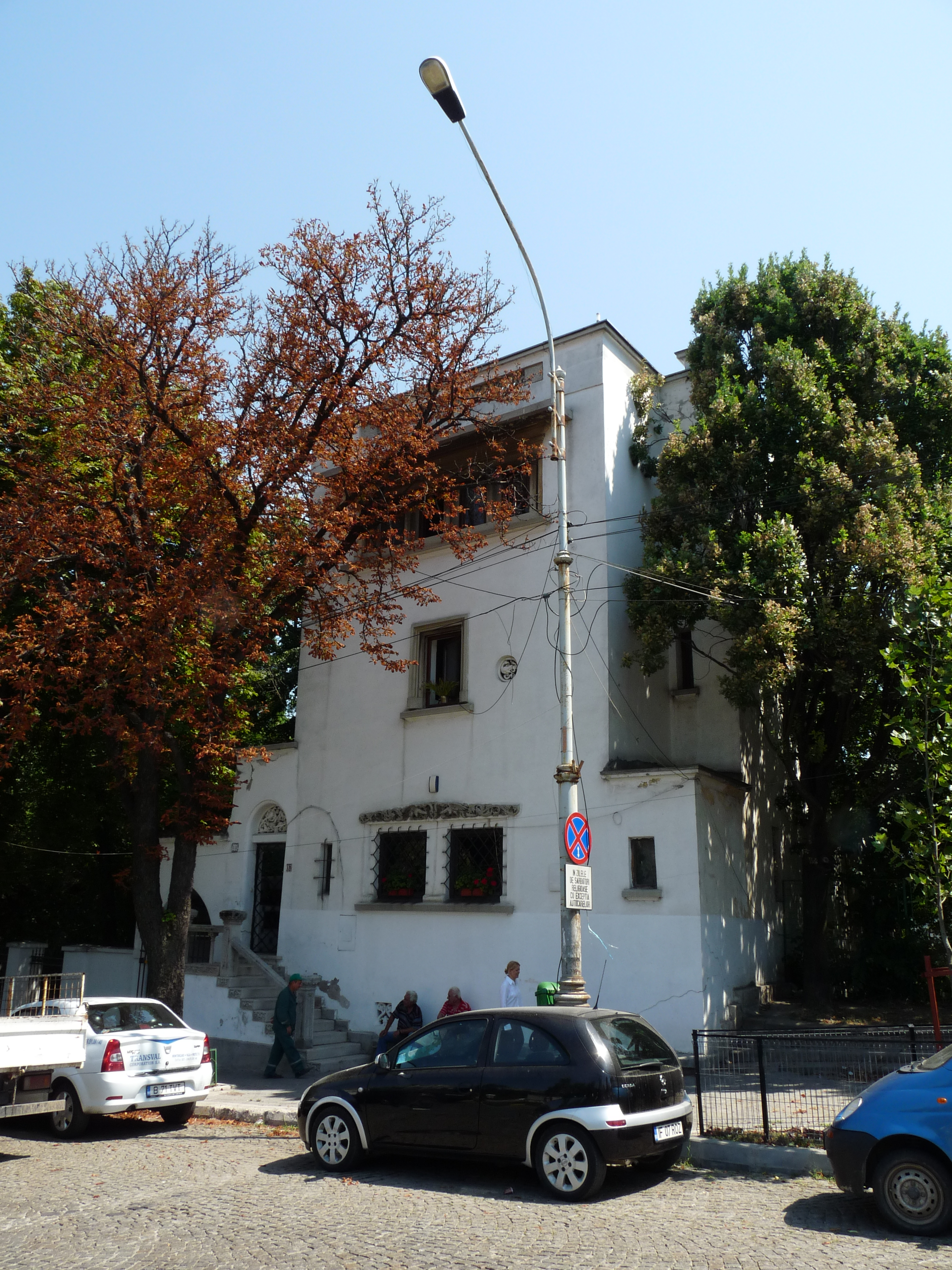 Architect Gh Simotta's house in Bucharest, on Patriarchy hill.